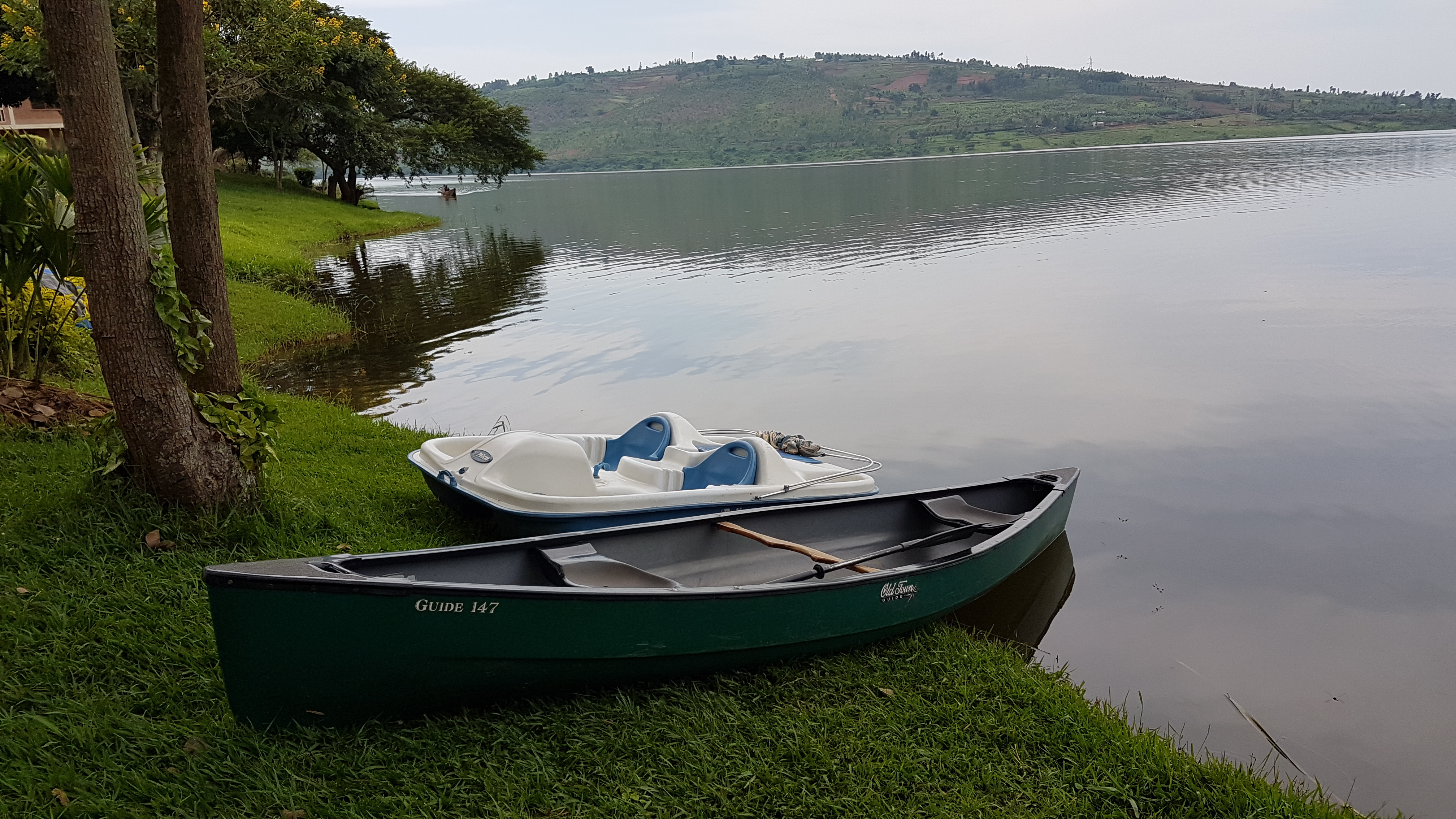 Canoe on Lake Muhazi, Rwanda, Africa This is an image with the theme "Africa on the Move or Transport" from: Rwanda